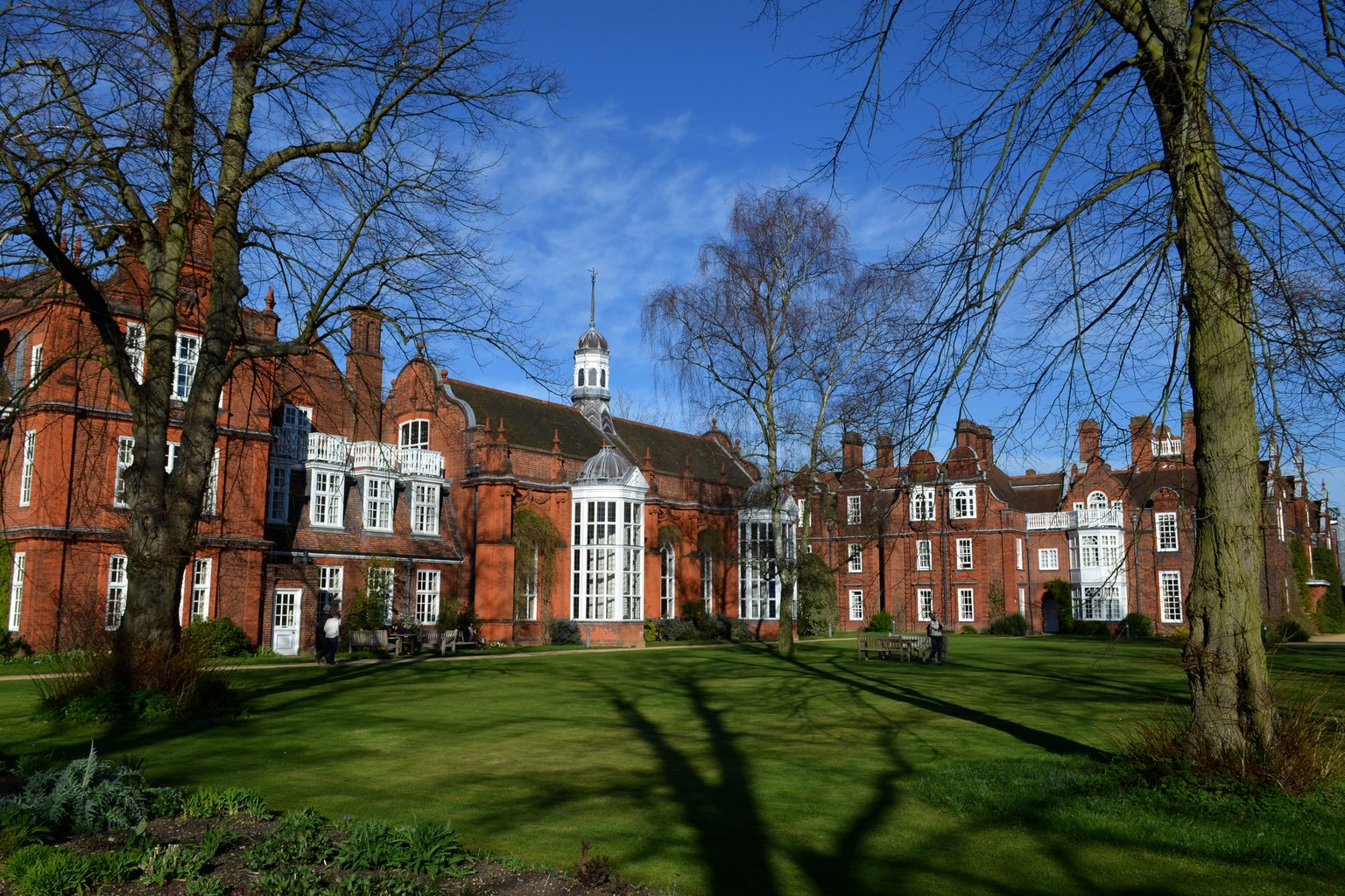 Dining hall of Newnham College, Cambridge University in March 2014.